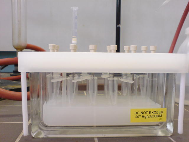 Solid phase extraction